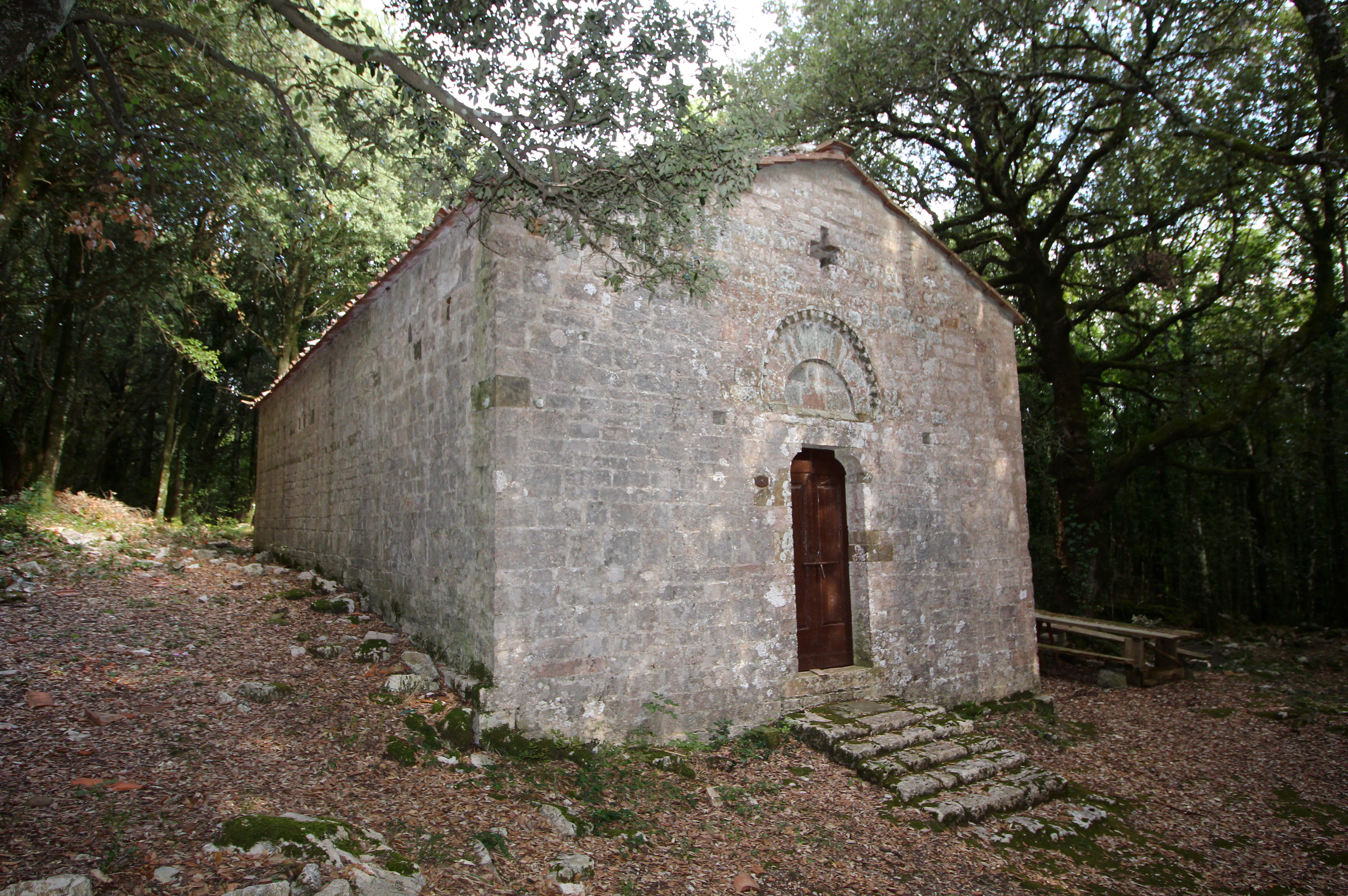 Church Santa Croce (also Eremo di Monte Santa Croce), territory of Monterotondo Marittimo, Province of Grosseto, Tuscany, Italy.